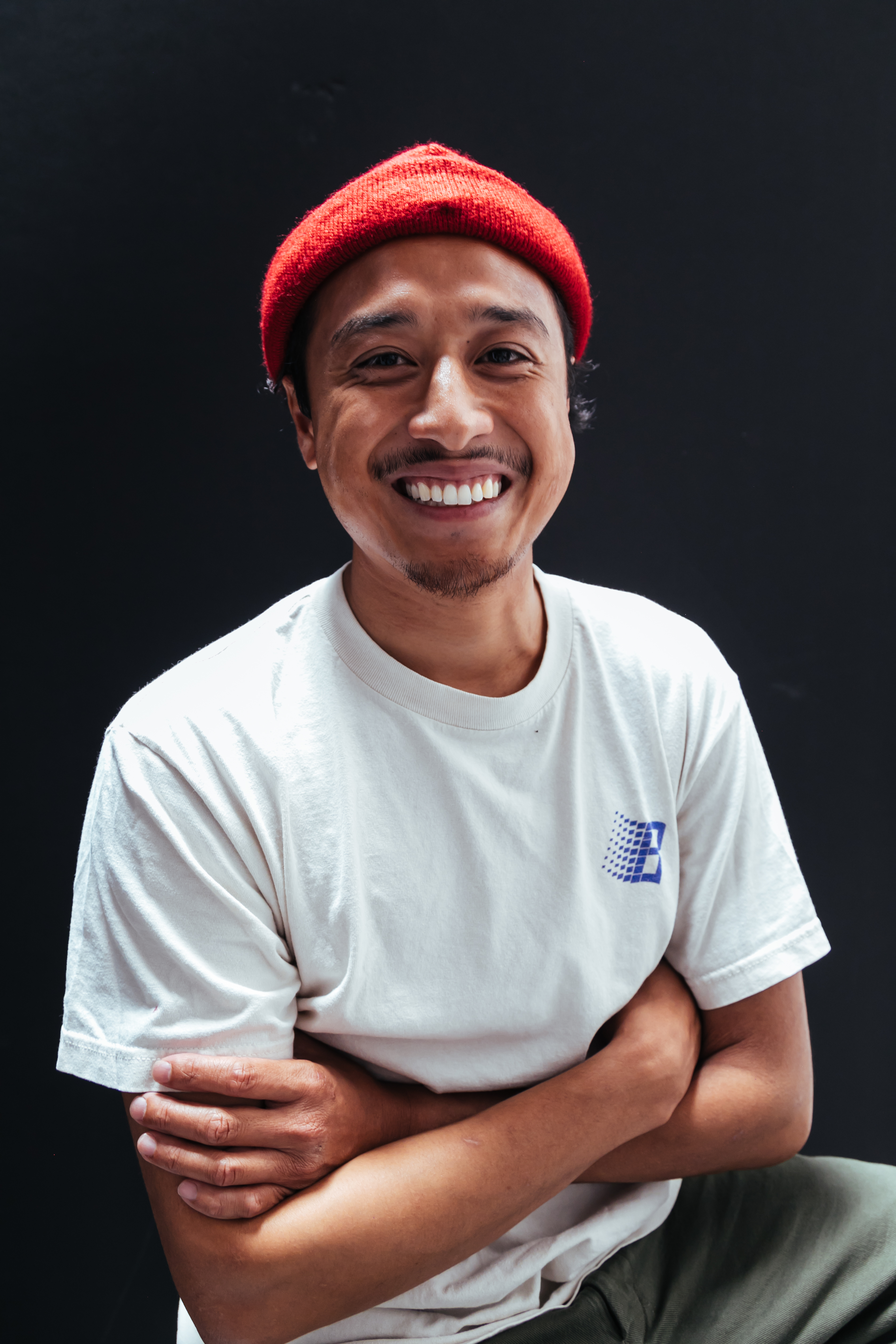 AJ Dungo, photographed by Andrew Castro